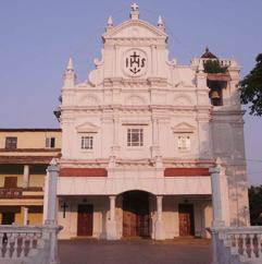 Rachol Church new picture